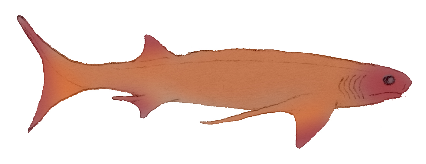 Restoration of Denaea, an extinct chondrichthyan